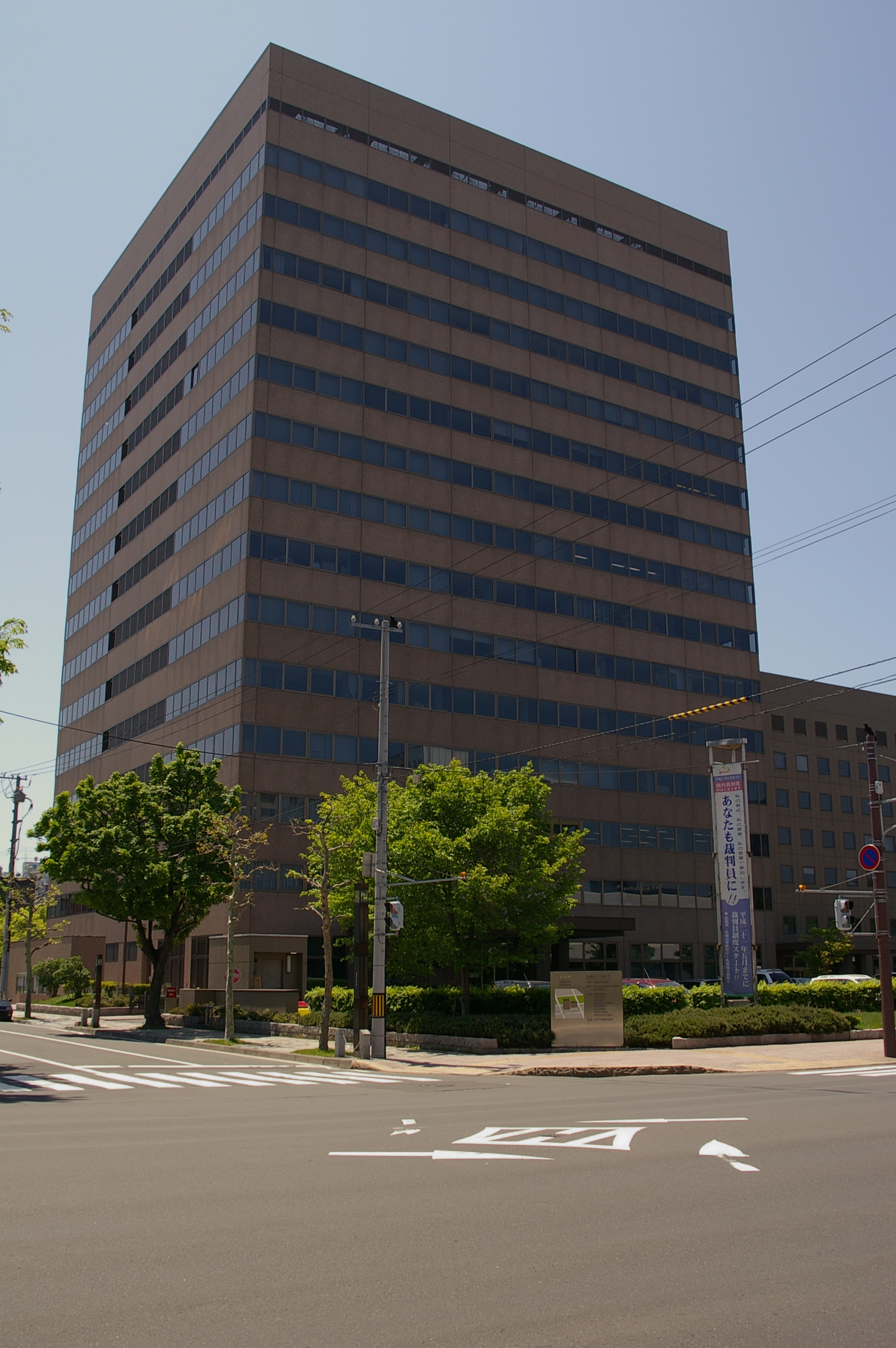 Photograph of Sapporo National Government Building No. 3 in Chuo-ku, Sapporo, Hokkaido, Japan.